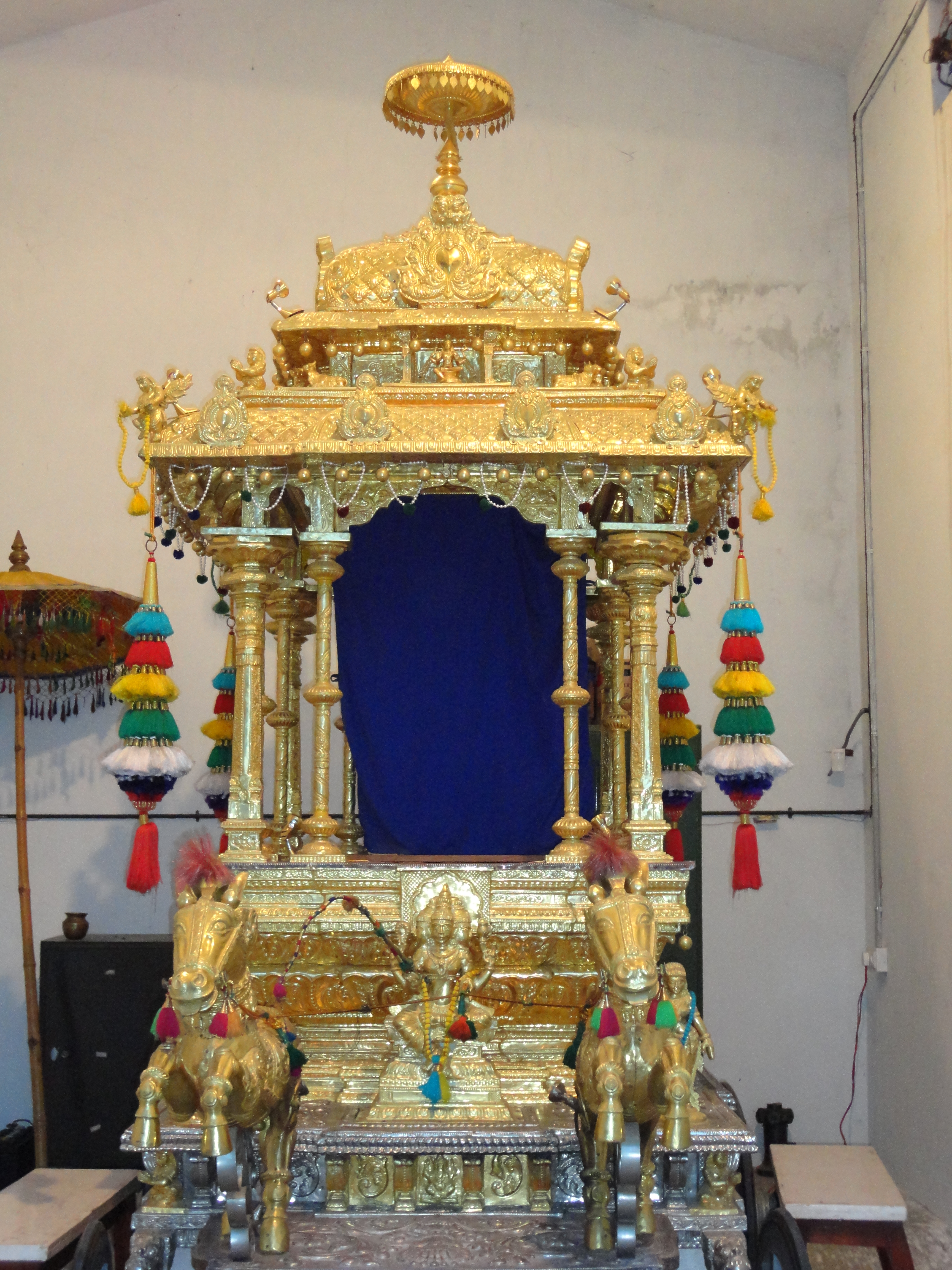 Hosur Sri Chandira Choleswarar Swami Ratham